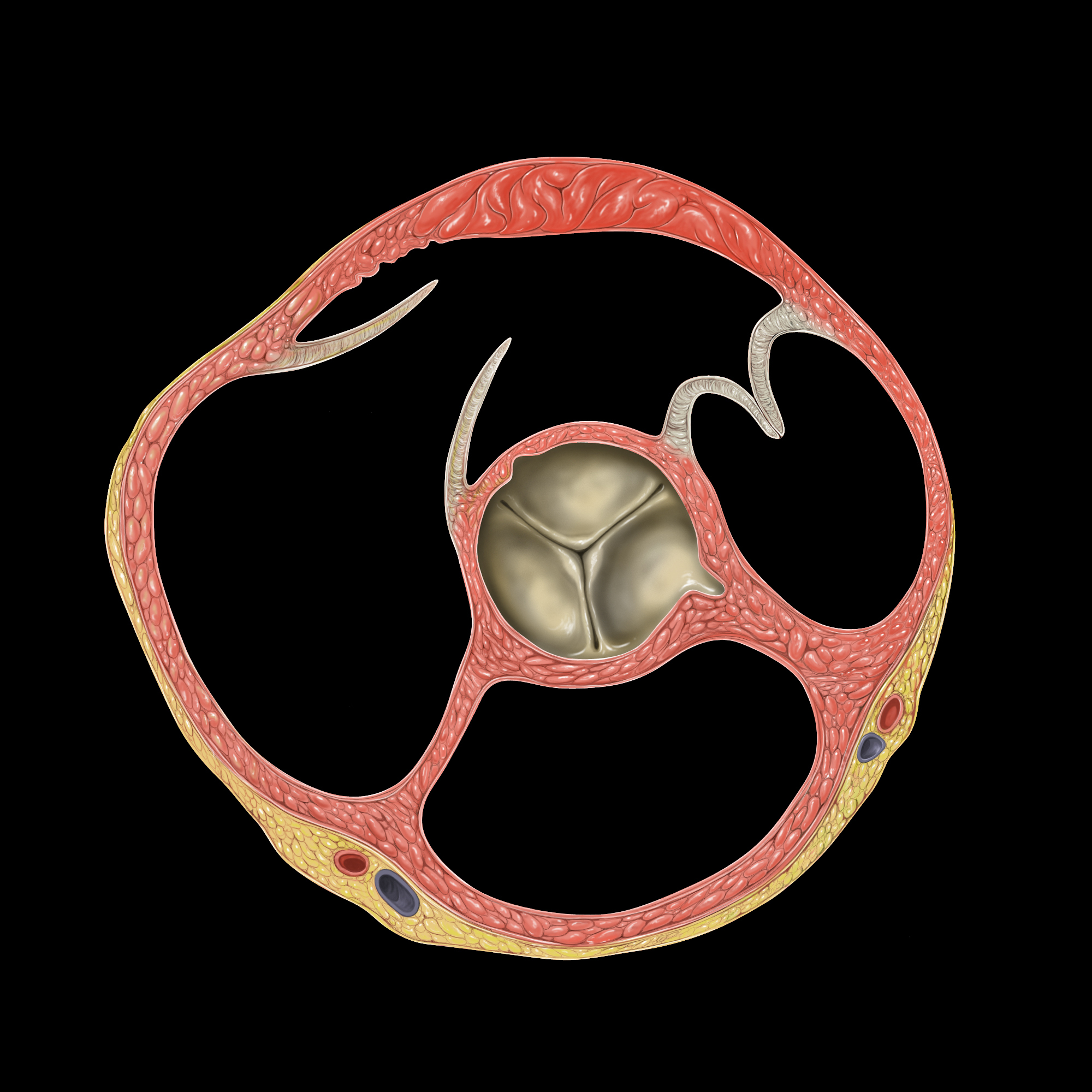 Heart normal aortic short axis echocardiography view